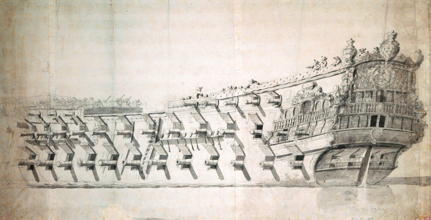 Presumed drawing of the French vessel Le Fort in 1673 in an English port at the start of the Holland War.